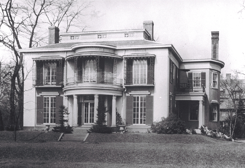 Oliver Hastings House, 101 Brattle Street, Cambridge, Massachusetts, USA. This is an older photograph, date unknown.